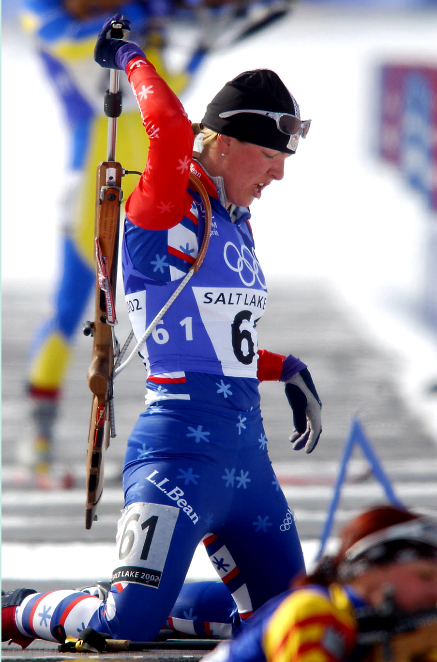 U.S. Navy photo by Journalist 1st Class Preston Keres; World Class Athlete Spc. Andrea Nahrgang catches her breath as she reaches for her rifle during the women's 7.5 km sprint biathlon race at Solider Hollow during the 2002 Winter Olympic Games on Feb. 13, 2002.